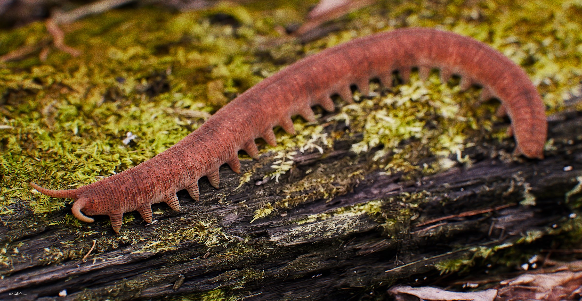 A reconstruction of Cretoperipatus